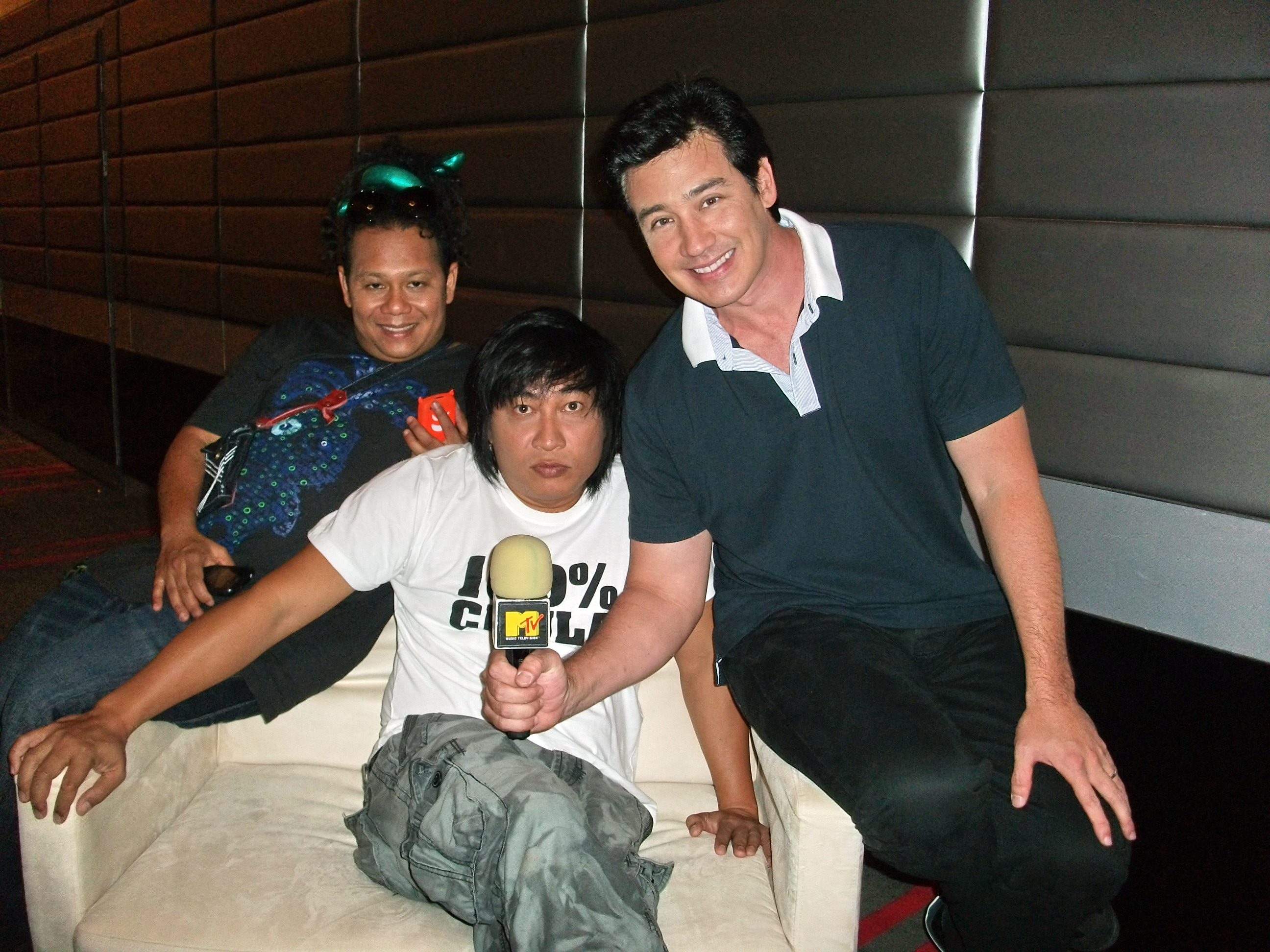 Saranae Siblor interview with MTV Thailand.